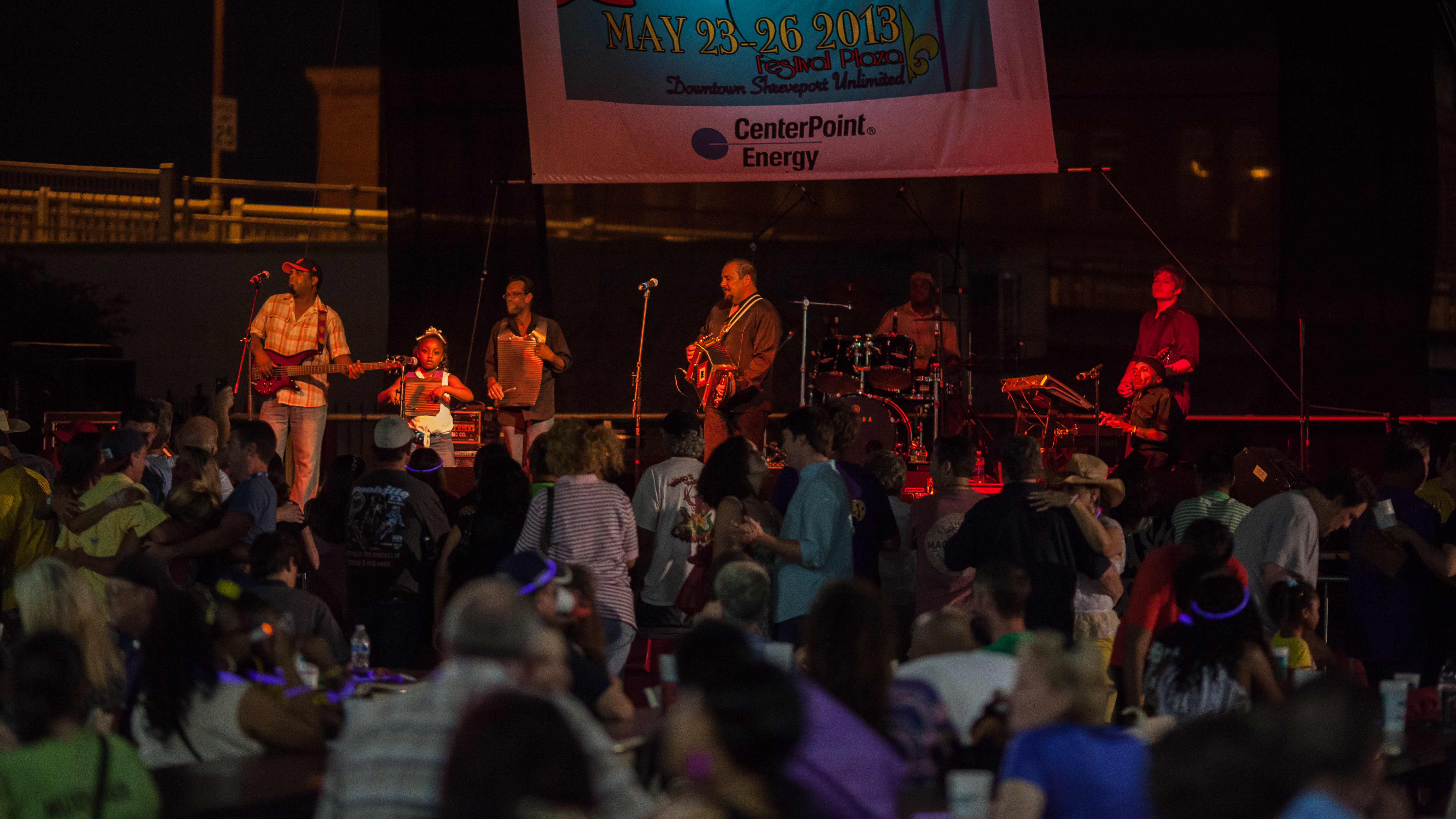 the Zydeco Experience performing at Mudbug Madness in 2013